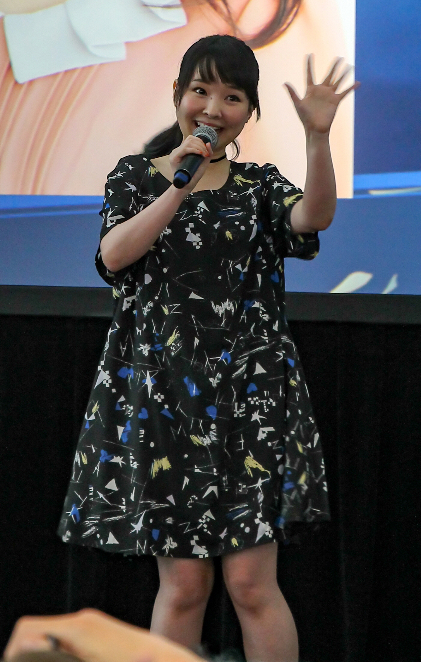 FanimeCon 2017 125 Kanae Ito